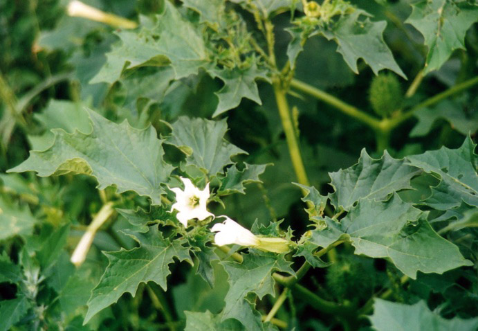 Flowering Datura stramonium in Germany